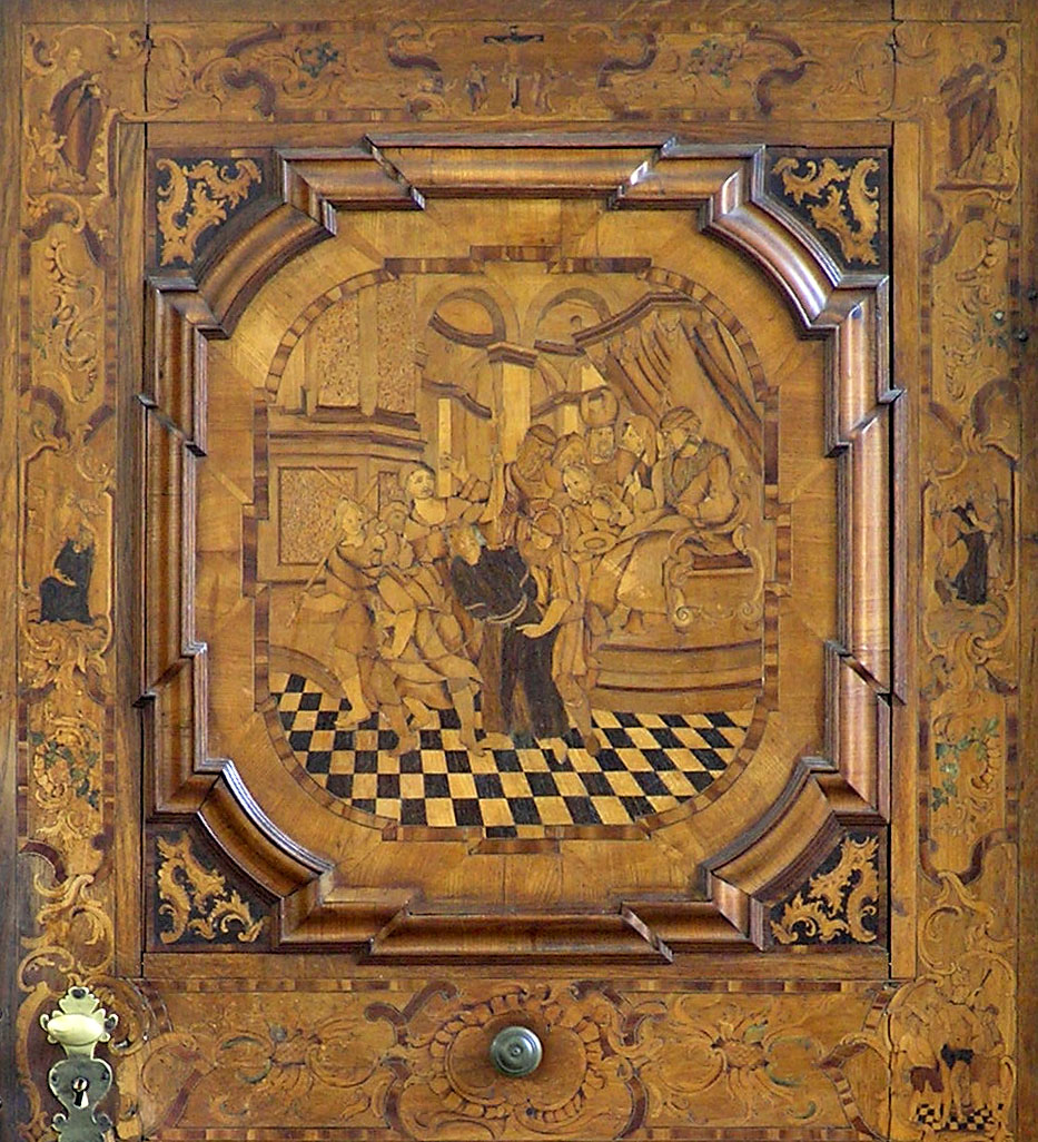 Toruń, church of Holy Ghost, wooden door decorated with marquetry technique, detail - upper part